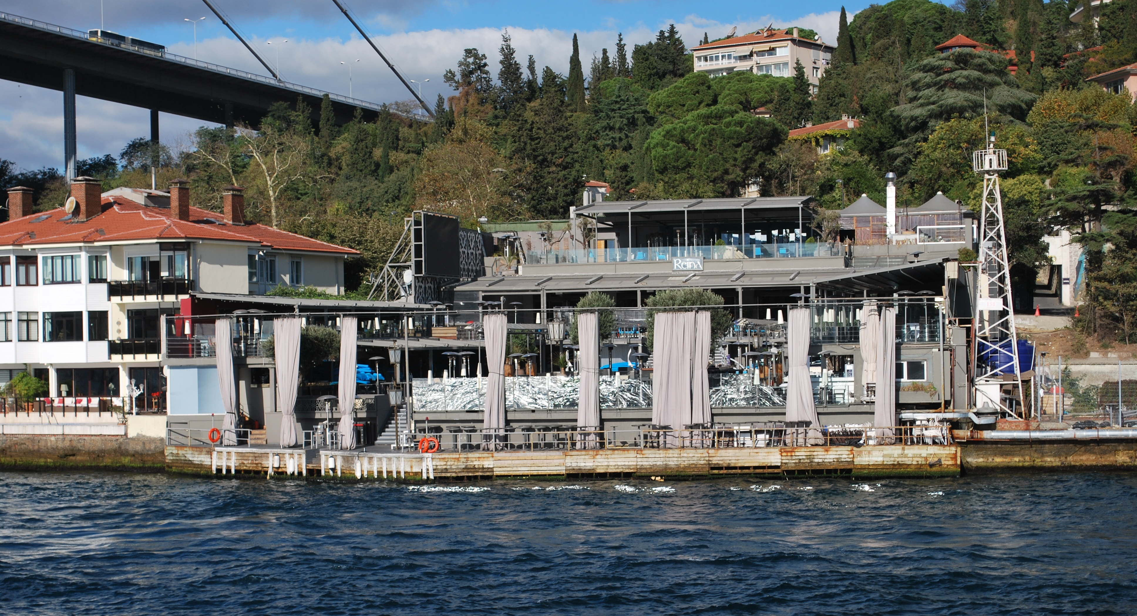 Reina restaurant, by Bospurus Bridge, Ortaköy, Istanbul